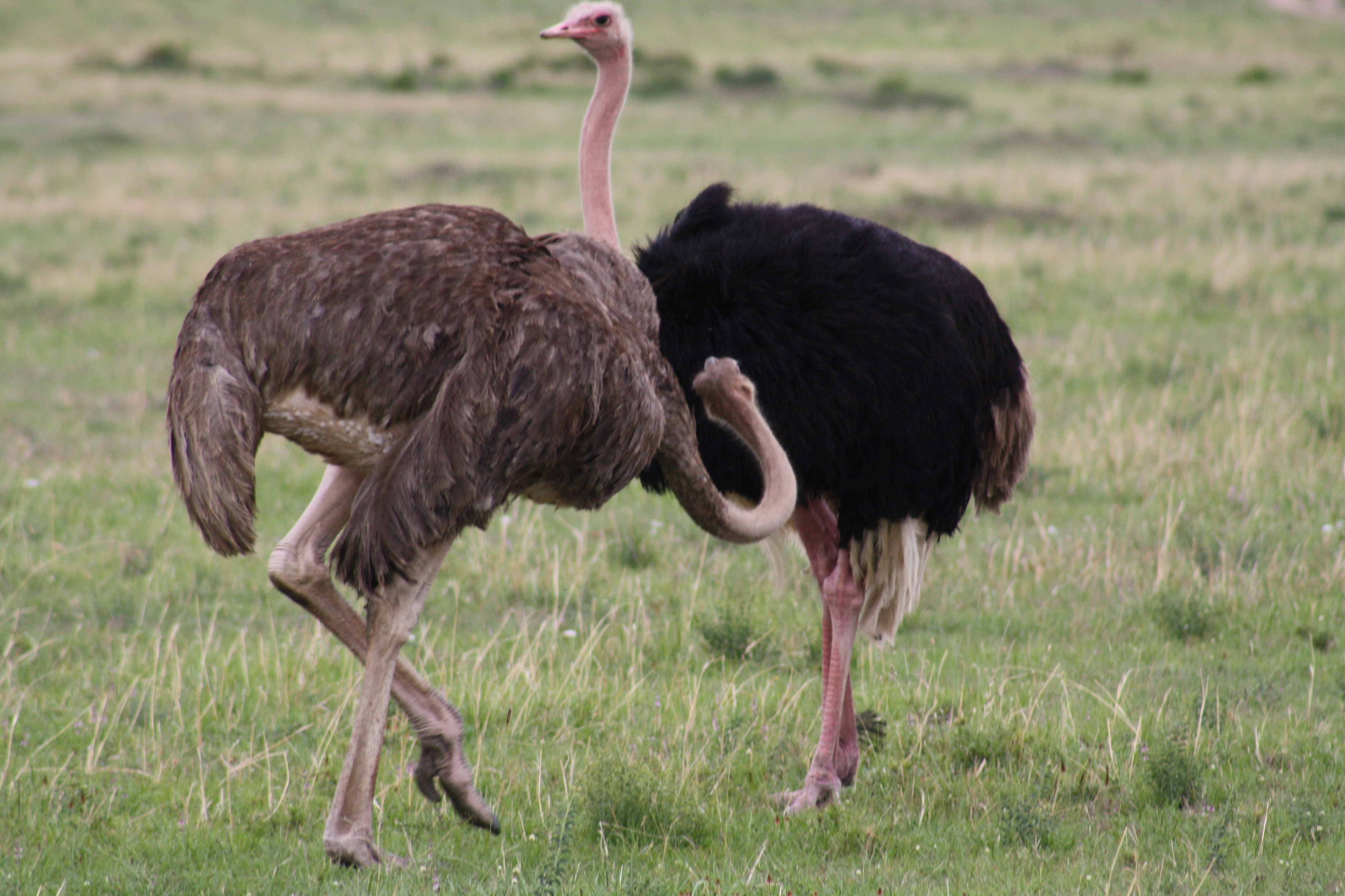 A pair of Masai Ostrich in the Masai mara. The dull brown one is the female. The male is the handsome fella in black.(Oct/ Nov. 2010)